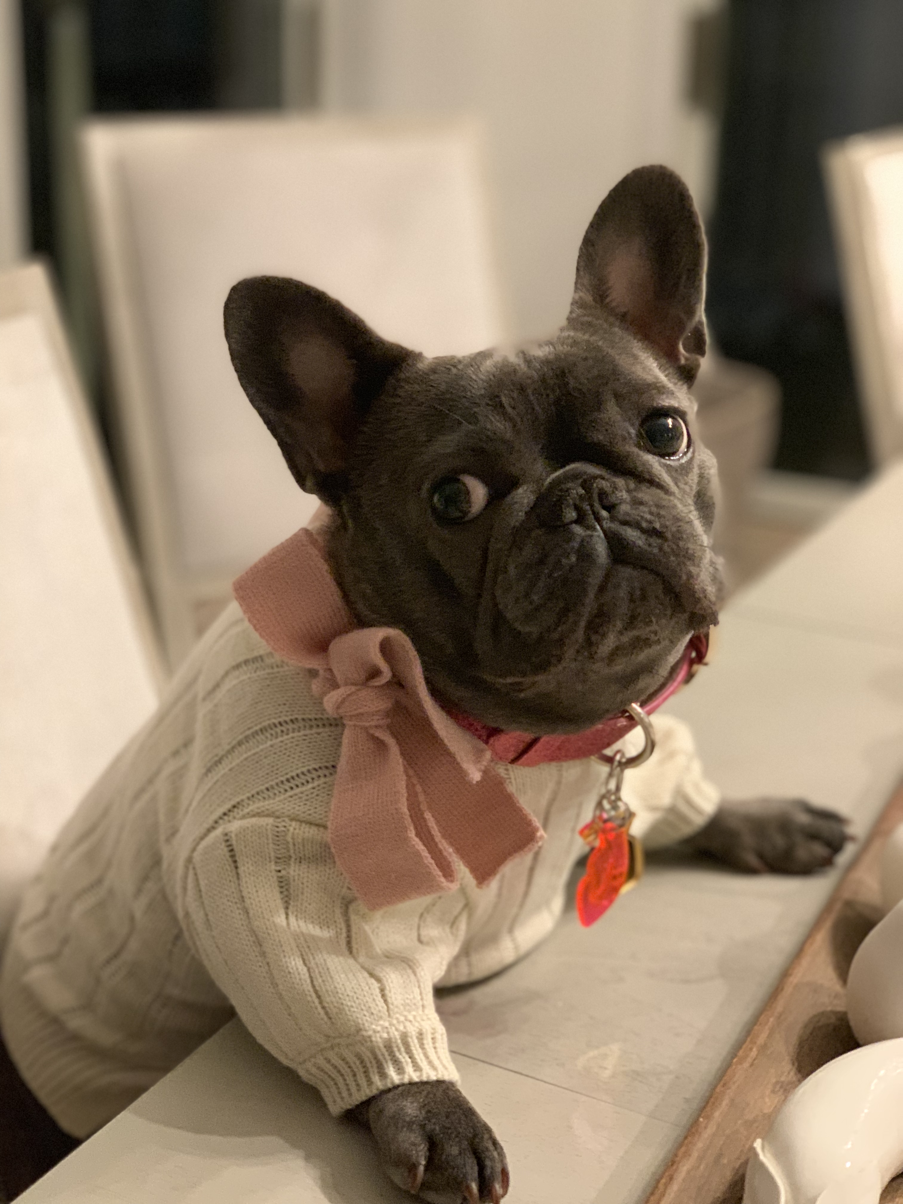 Izzy the Frenchie photoshoot New York City